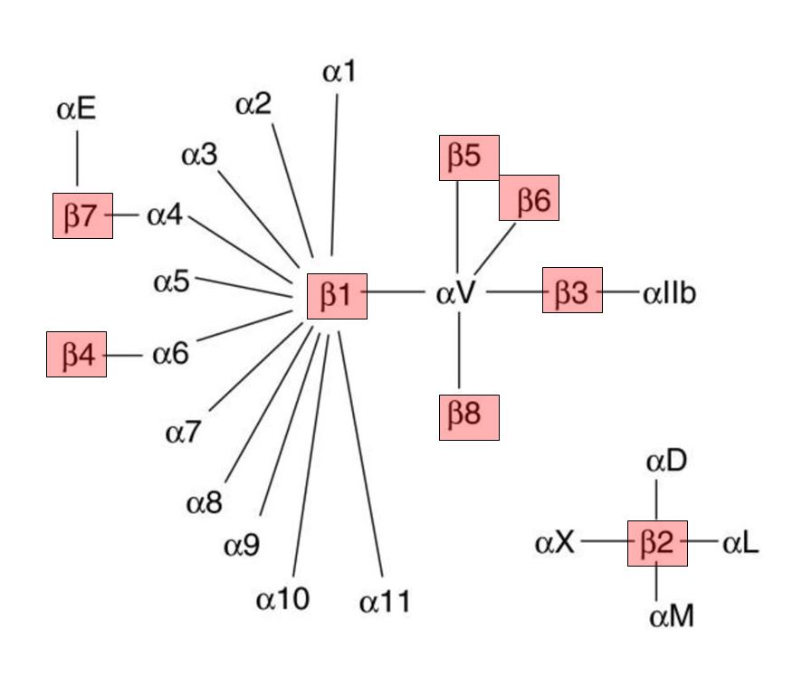 combination of integrin heterodimers